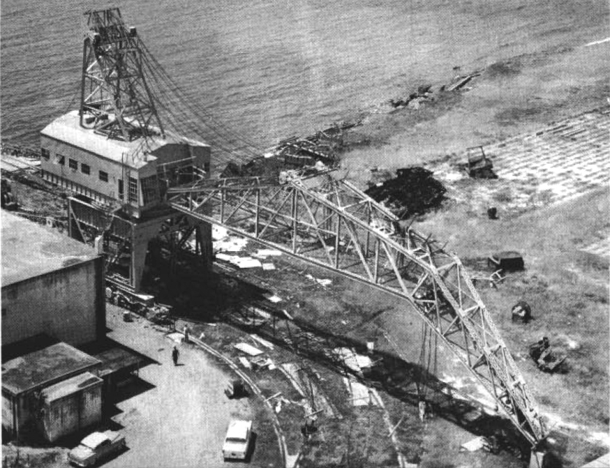 A 50-ton capacity crane next to the dry dock at the U.S. Naval Station Roosevelt Roads, Puerto Rico, circa 1963.